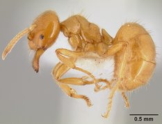 Acropyga acutiventris worker.